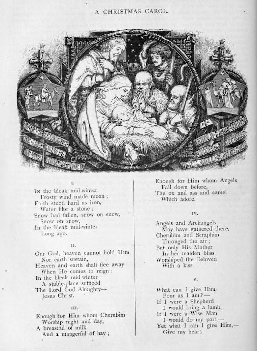 "In the Bleak Mid-Winter", by Christina Rosetti, as first published in Scribner's Monthly (January 1872)